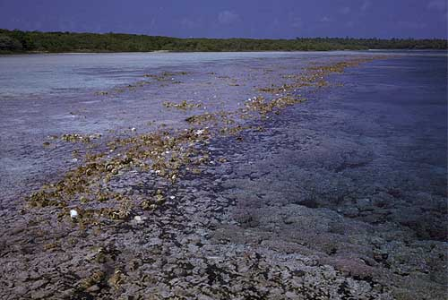 Lagoon reef with Tridacna of Tridacna Islet with South Islet in background, Caroline Atoll, Kiribati